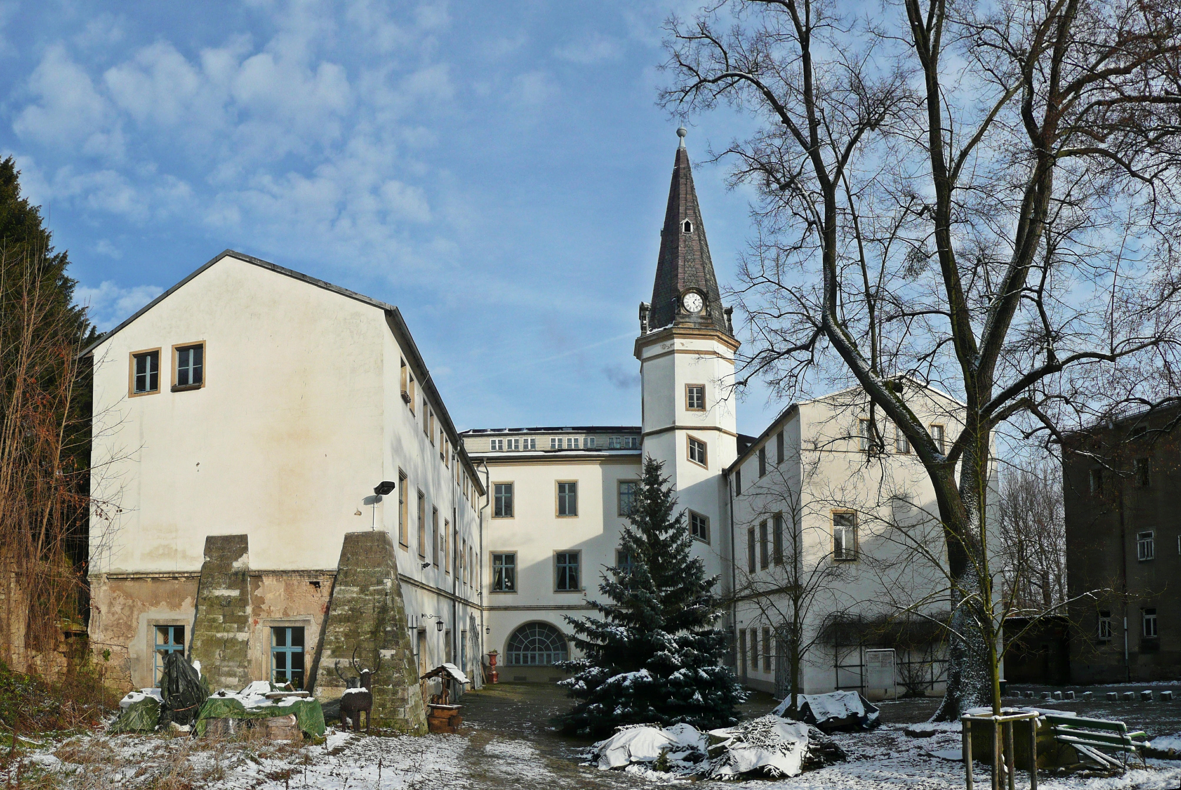 This image shows Nöthnitz Palace (Schloss Nöthnitz) in Nöthnitz (Bannewitz) near Dresden.